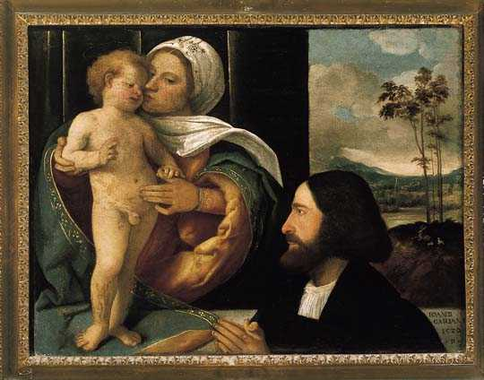 Name unknown (